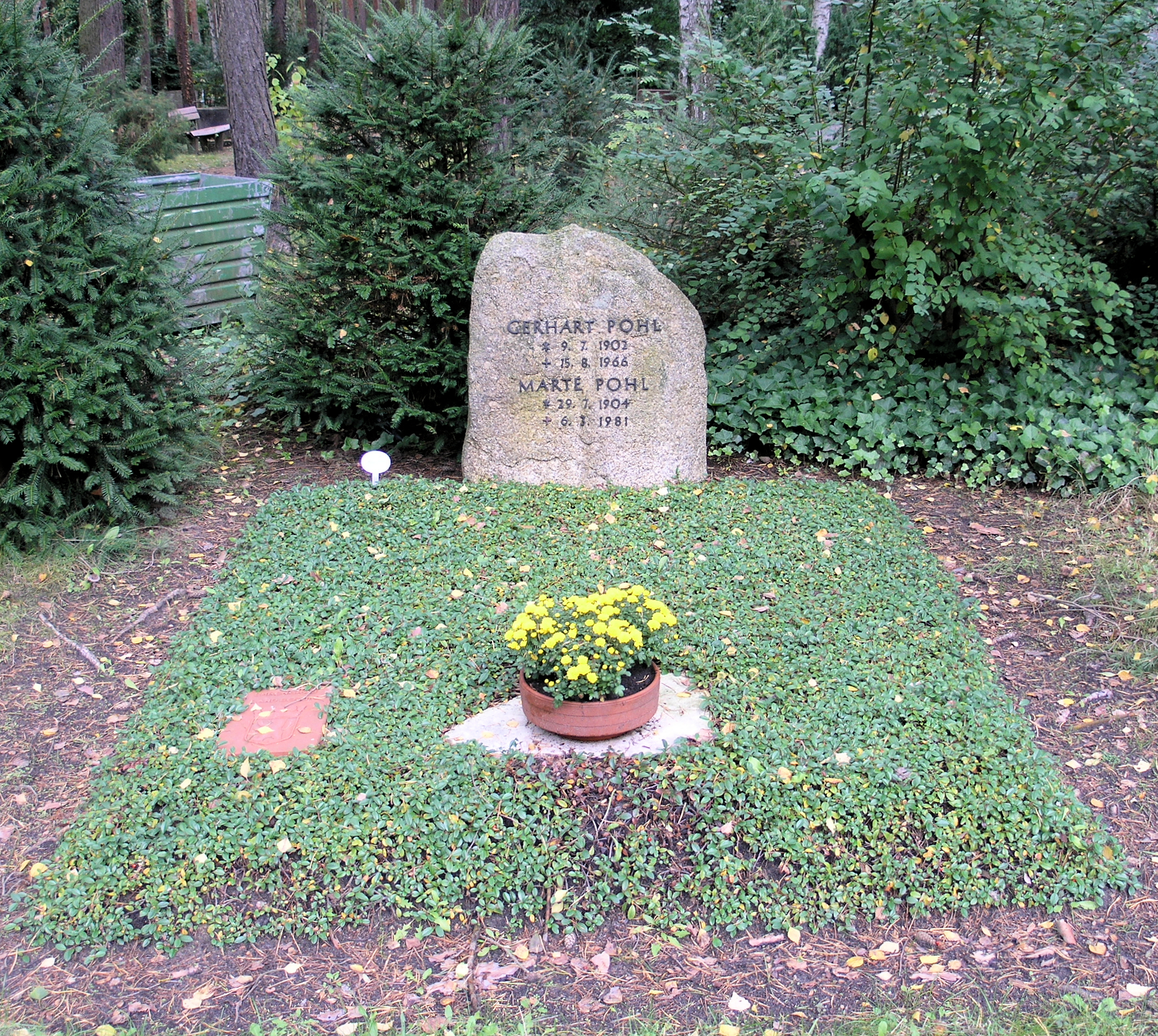 "Ehrengrab" (grave of honor), Gerhart Pohl, Potsdamer Chaussee 75, Berlin-Nikolassee, Germany Koordinate:52°25′23″N 13°12′38″E / 52.42306°N 13.21056°E